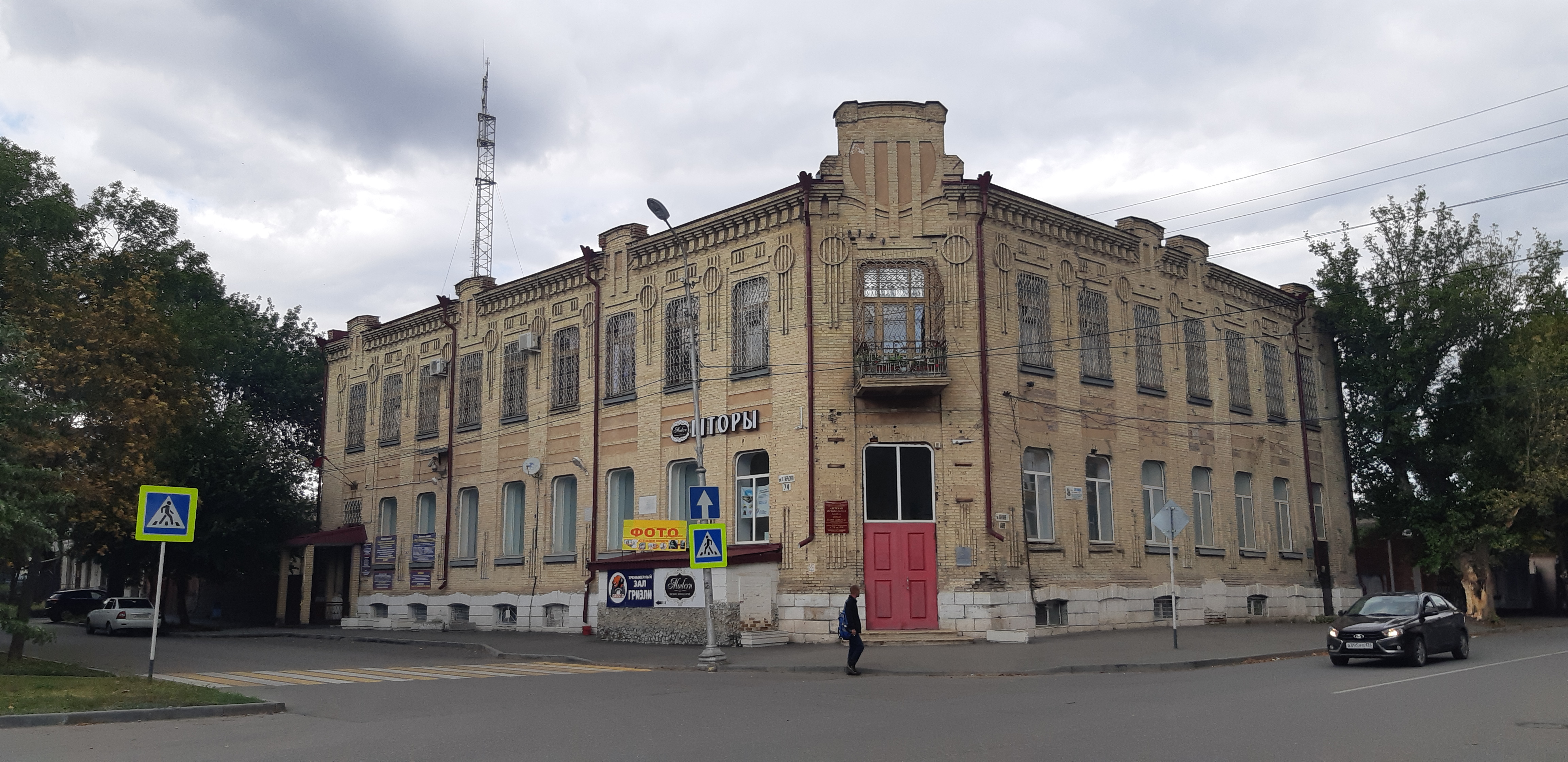 The building of the hotel "Louvre" Georgievsk (early XX century)